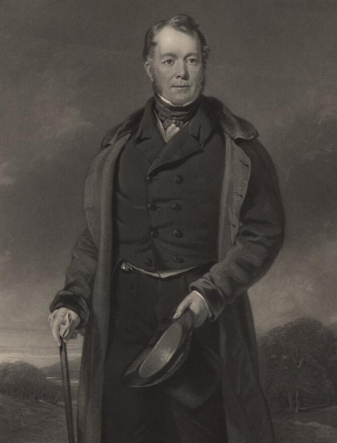 A portrait from the Welsh Portrait Collection at the National Library of Wales. Depicted person: Edward Lloyd-Mostyn, 2nd Baron Mostyn – British politician